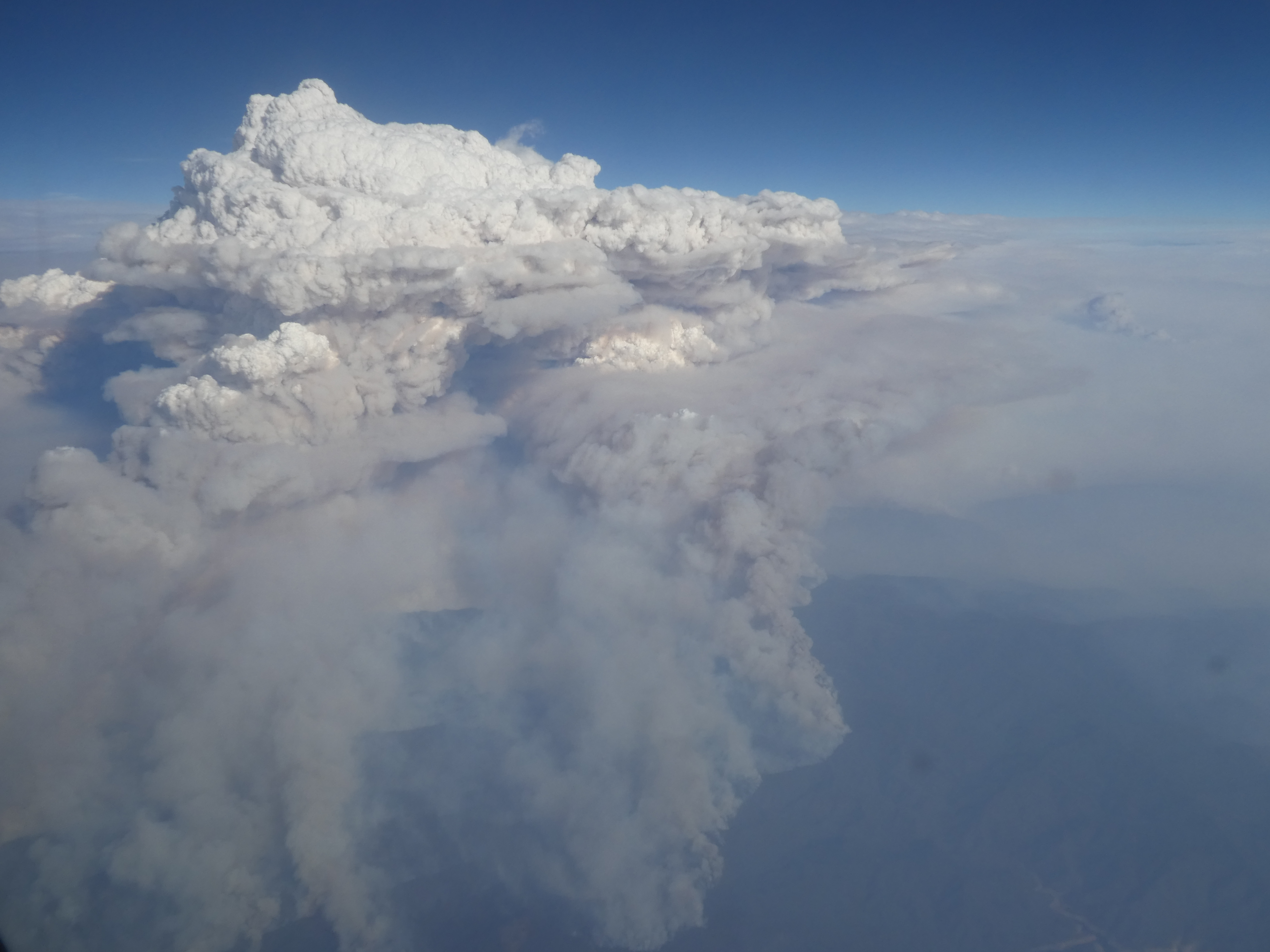 A photograph from a commercial flight showing a pyrocumulonimbus cloud